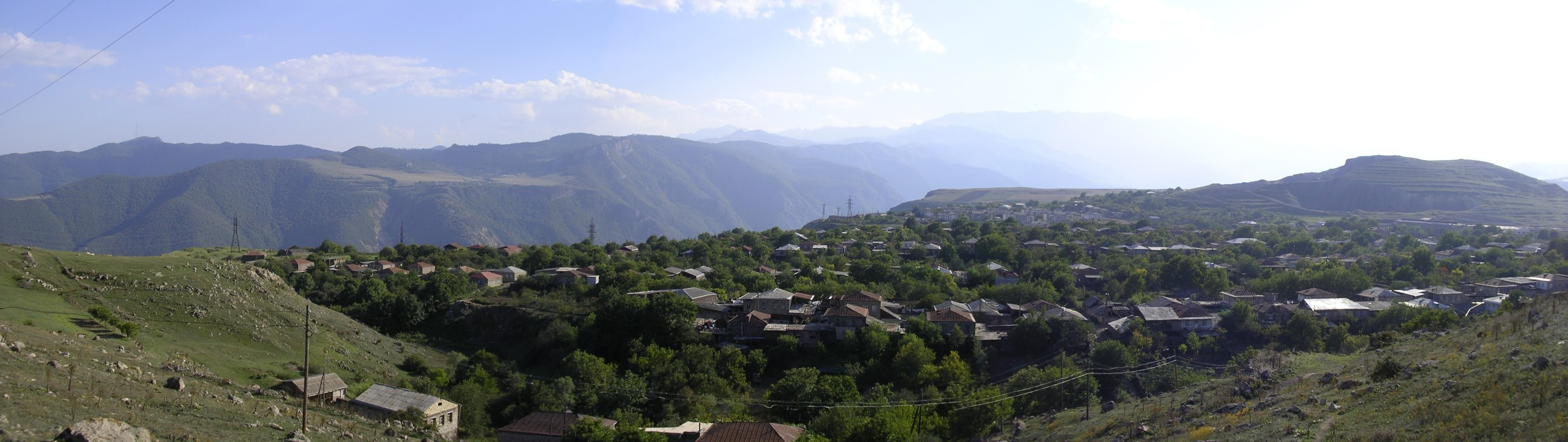 Shinuhayr village and Vorotan canyon view